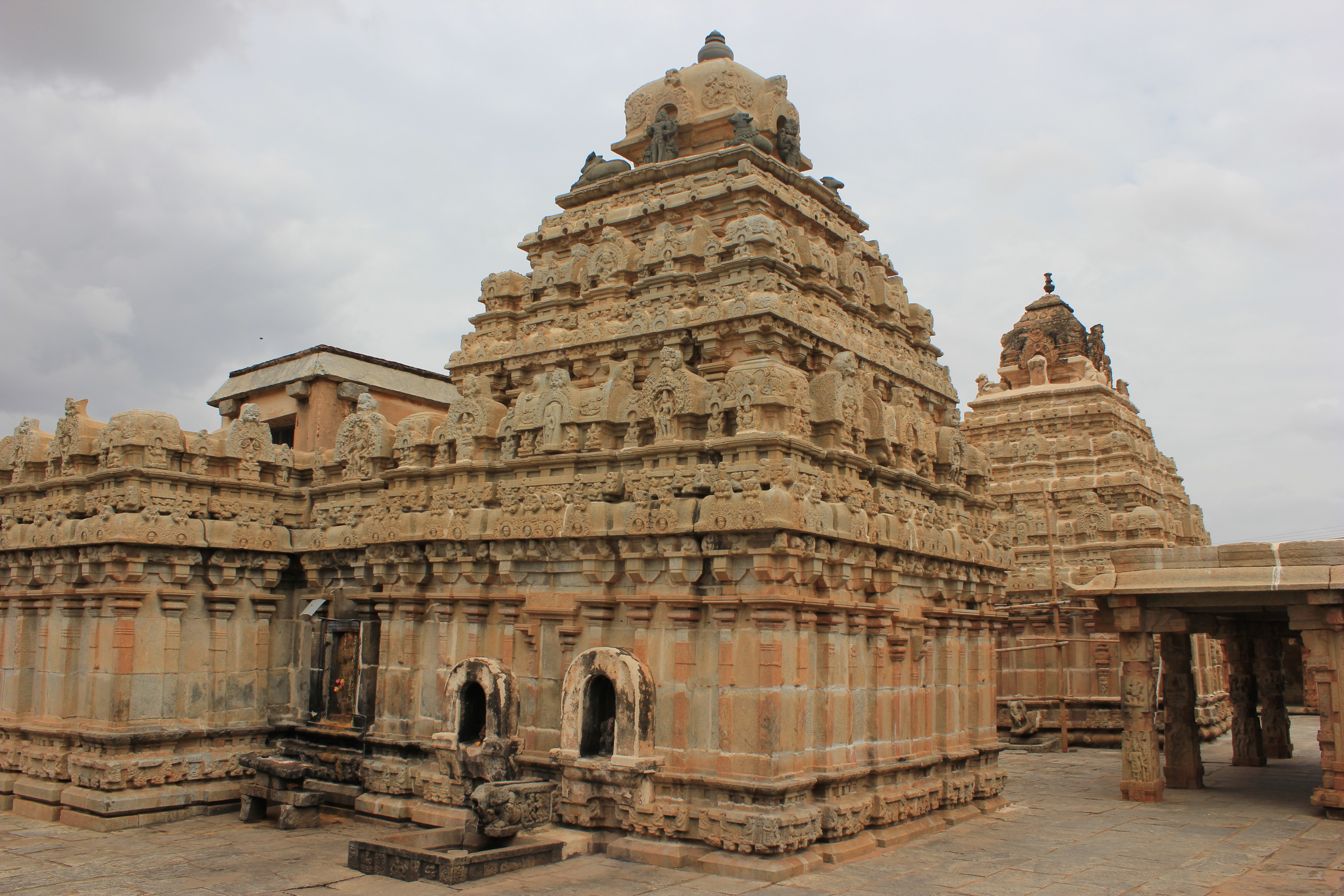 This photograph was taken at the Bhoganandishvara temple (also spelt Bhoganandishwara) at the foot of Nandi Hills, Chikkaballapur district, Karnataka state, India. The temple was originally consecrated during the rule of a local Bana dynasty king around 810 A.D. and the overall style is Dravidian. Later contributions were made by kings of the Chola Dynasty, the Hoysala Empire and the Vijayanagara Empire.